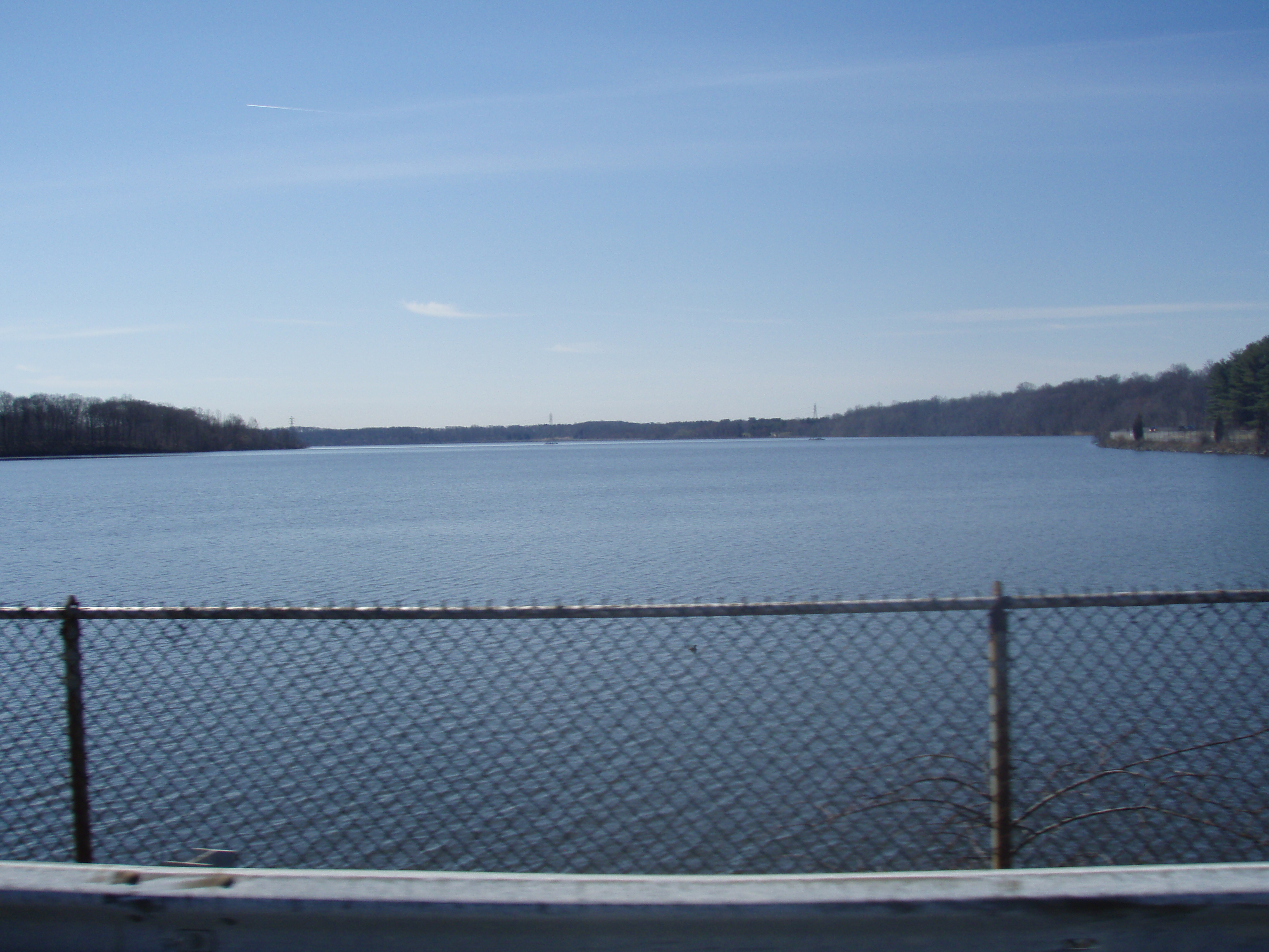 Lake Tappan as seen from Orangetown, New York